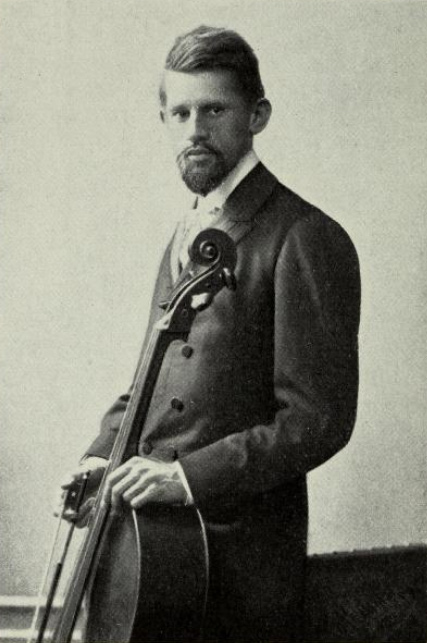 The German cellist Hugo Schlemüller (1872–1918)